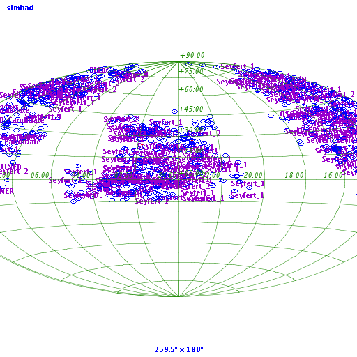 Sky plot of the Markarian galaxies in the SIMBAD database. Credit: Aladin at SIMBAD.